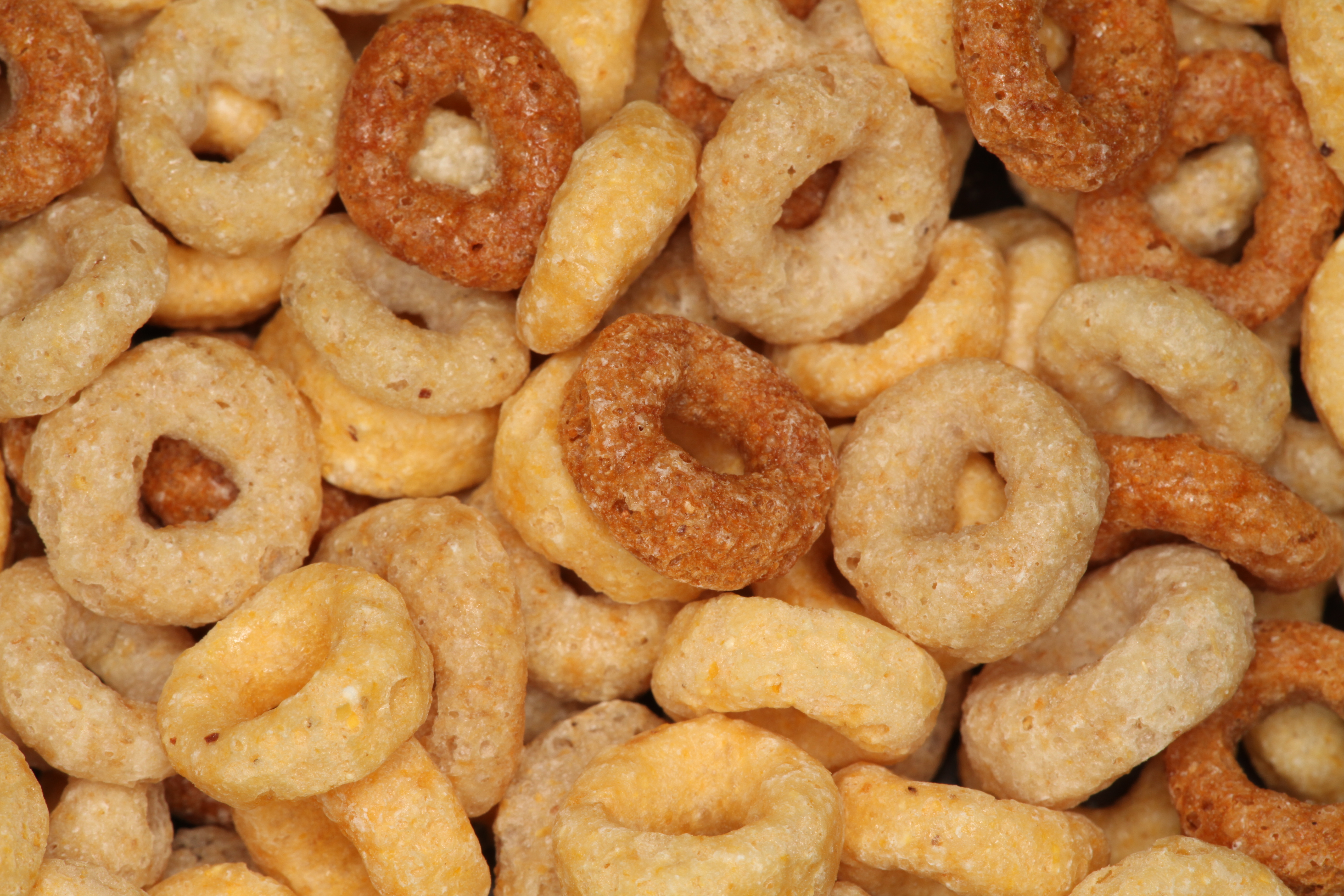 Macro photo of a Cheerios Brand Multi Grain breakfast cereal.